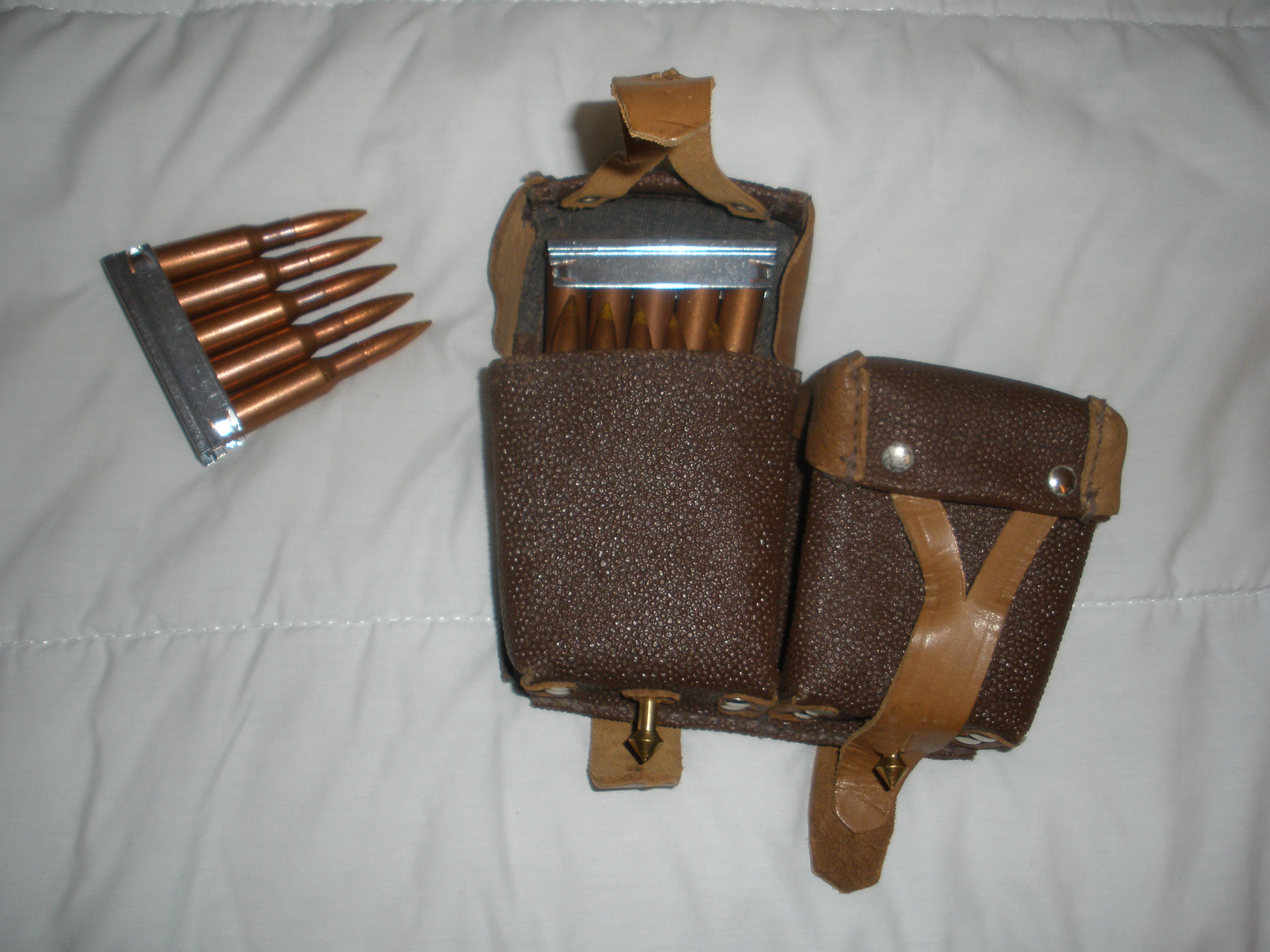 ammo